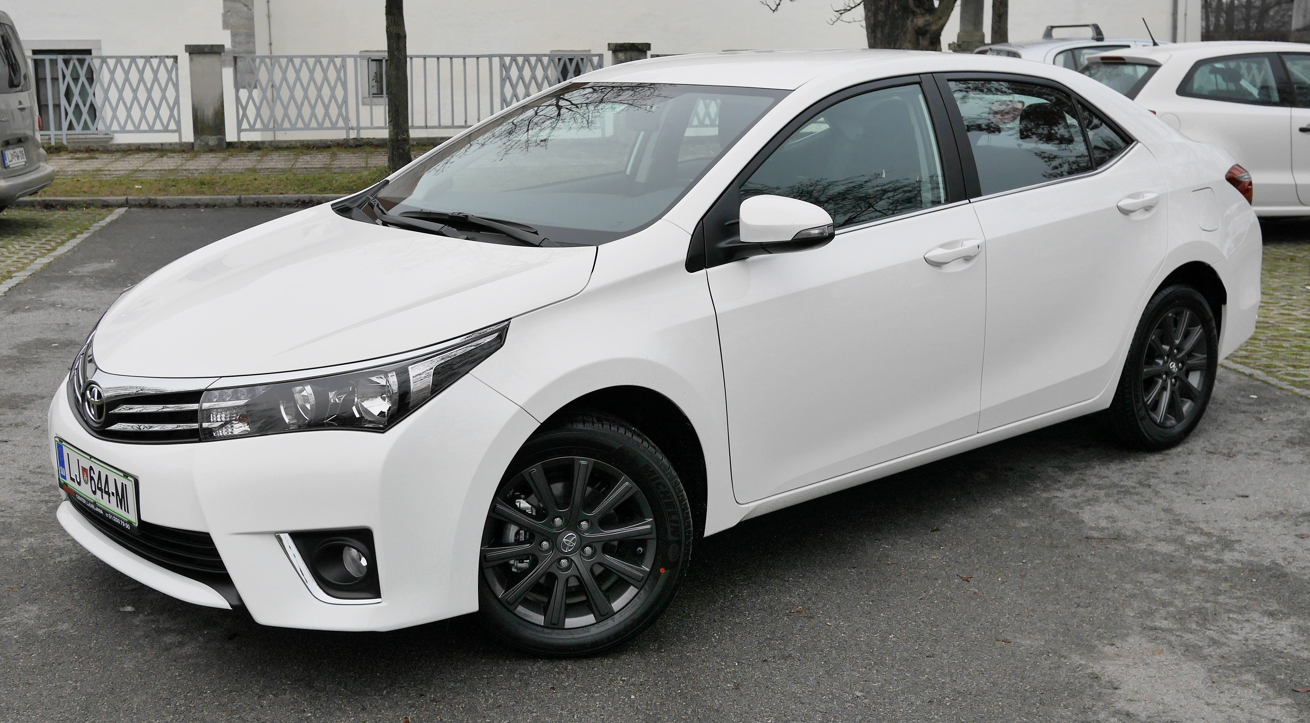 Toyota Corolla Style (model E170, year 2016).